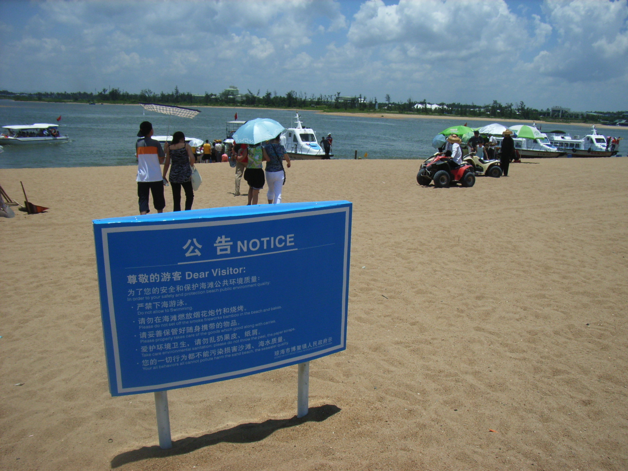 Boao Aquapolis, Qionghai County, Hainan Island, China User:HNPIX